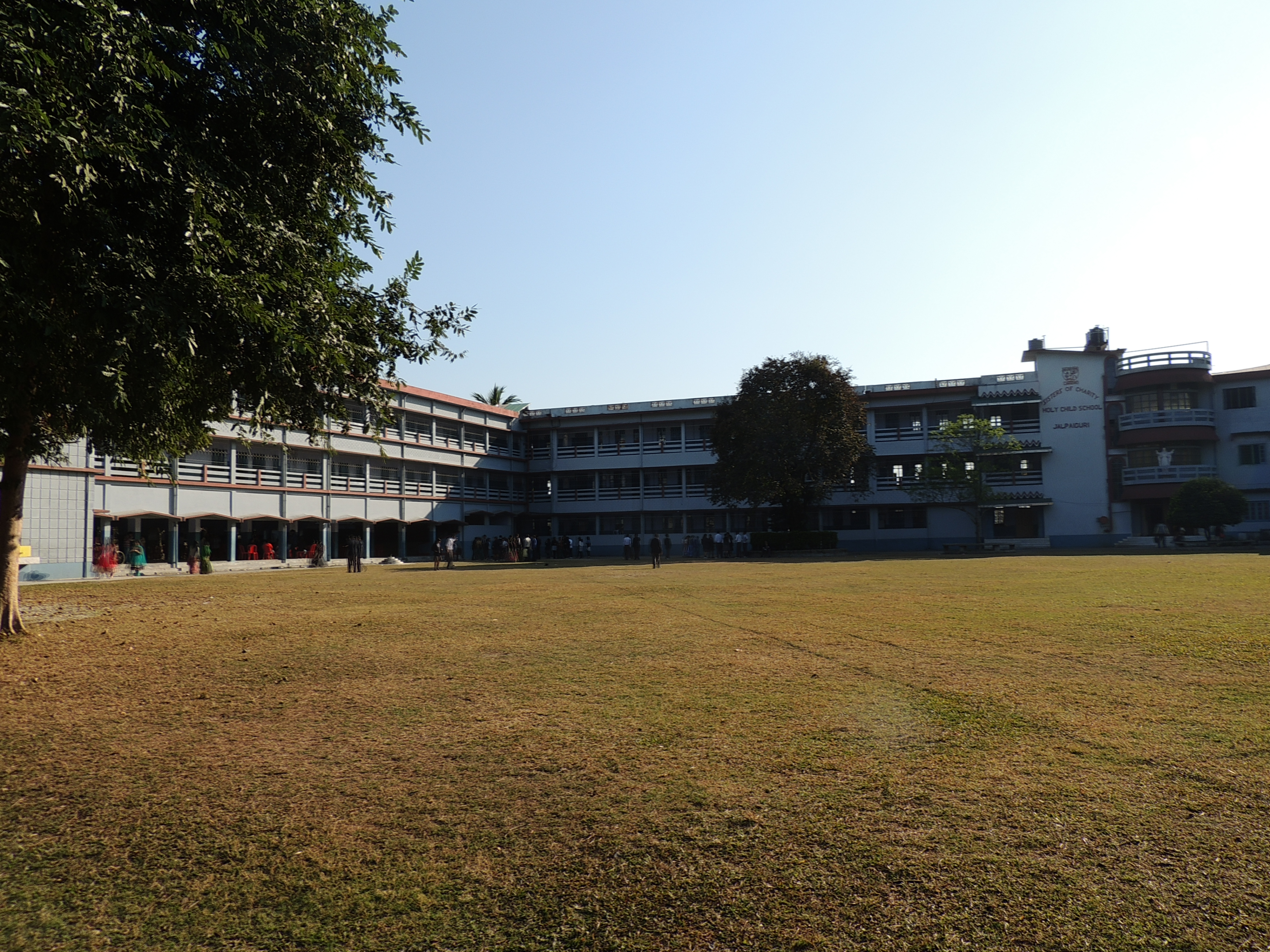 the High School building view in HCS Campus